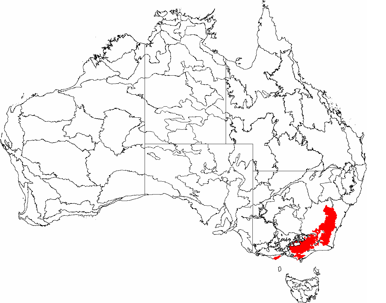 This is a map of the Interim Biogeographic Regionalisation of Australia (IBRA), with state boundaries overlaid. The South Eastern Highlands region is shown in red.